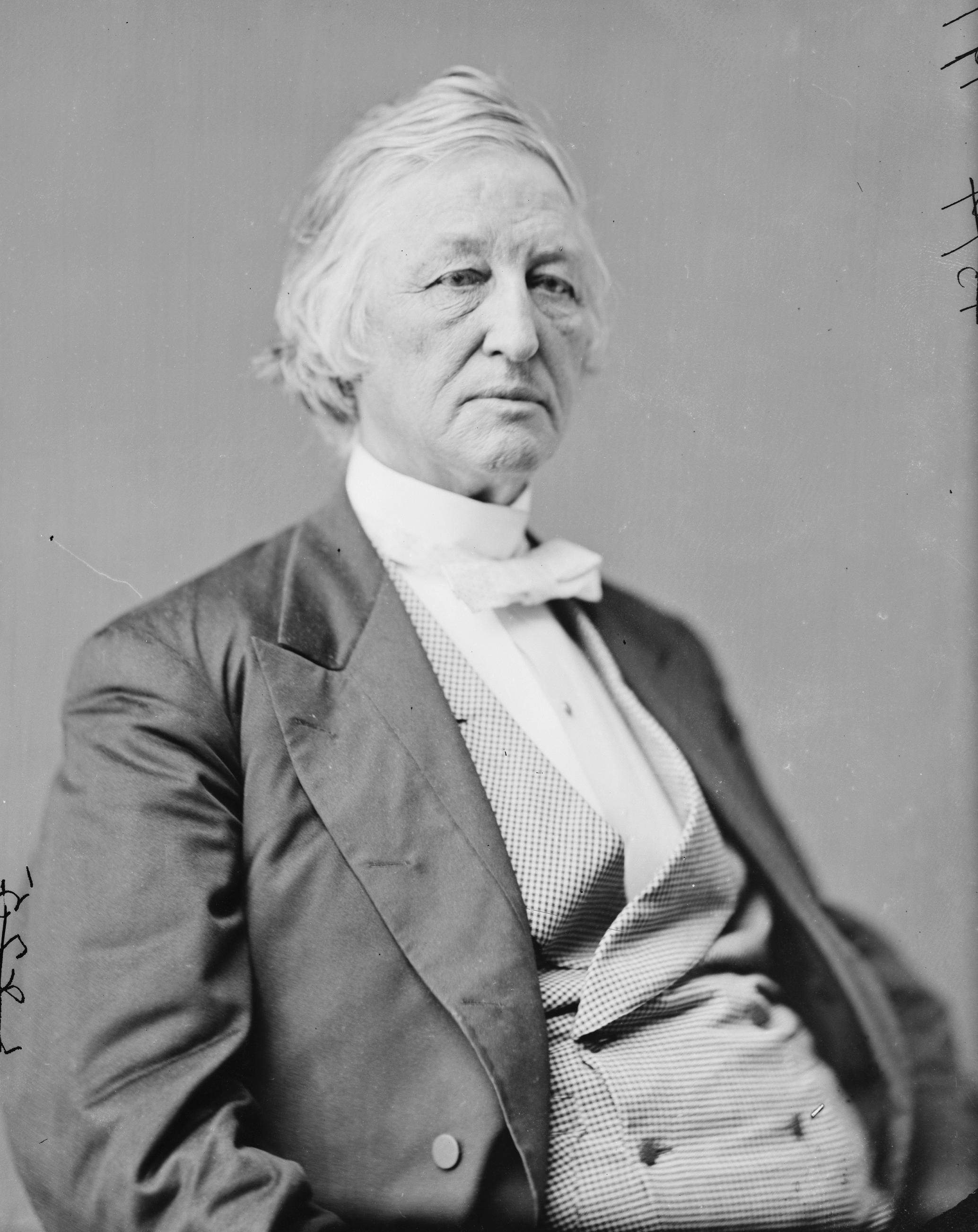 Elias W. Leavenworth. Library of Congress description: "Leavenworth, Hon. Elias Warner of N.Y.".